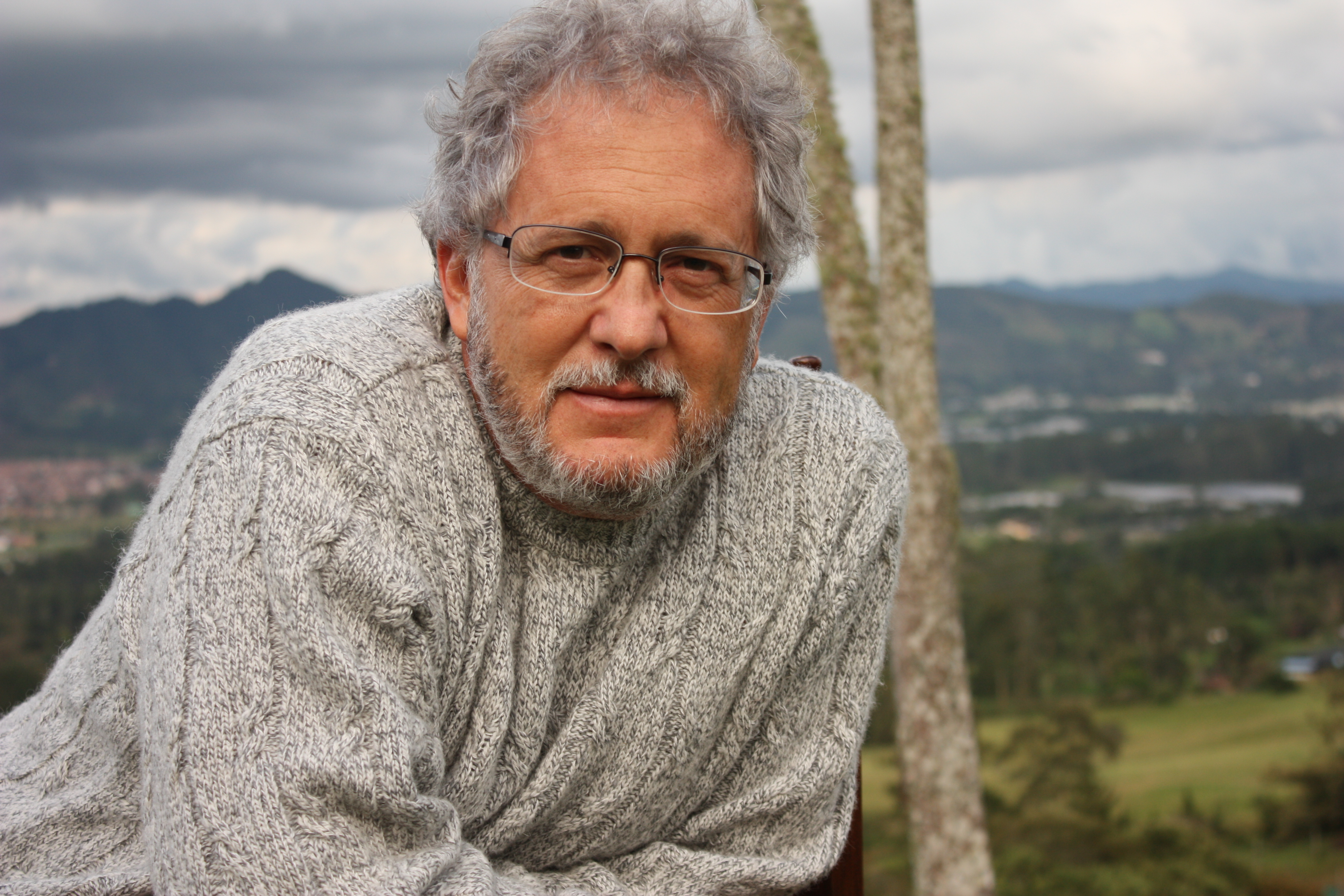 Portrait